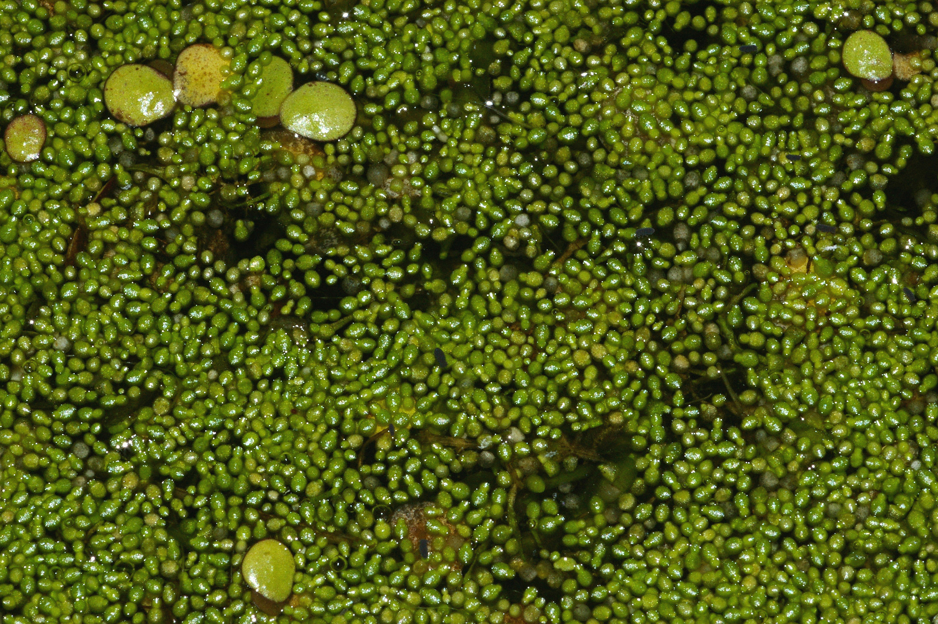 Plants of Spotless watermeal, Wolffia arrhiza, in between some duckweed of Spirodela polyrhiza (large "leaves"). Every single "tiny ball" of less than 1 mm length is an own individual plant. The whole surface of the pond (about 800 m²) was covered like this.